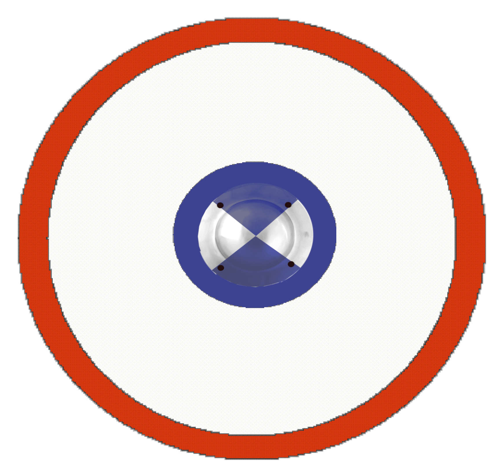 Shield pattern o.t. Honoriani Maures iuniores, one of the auxilia palatina units in the Magister Peditum's infantry roster; it is also assigned to his Italian command.